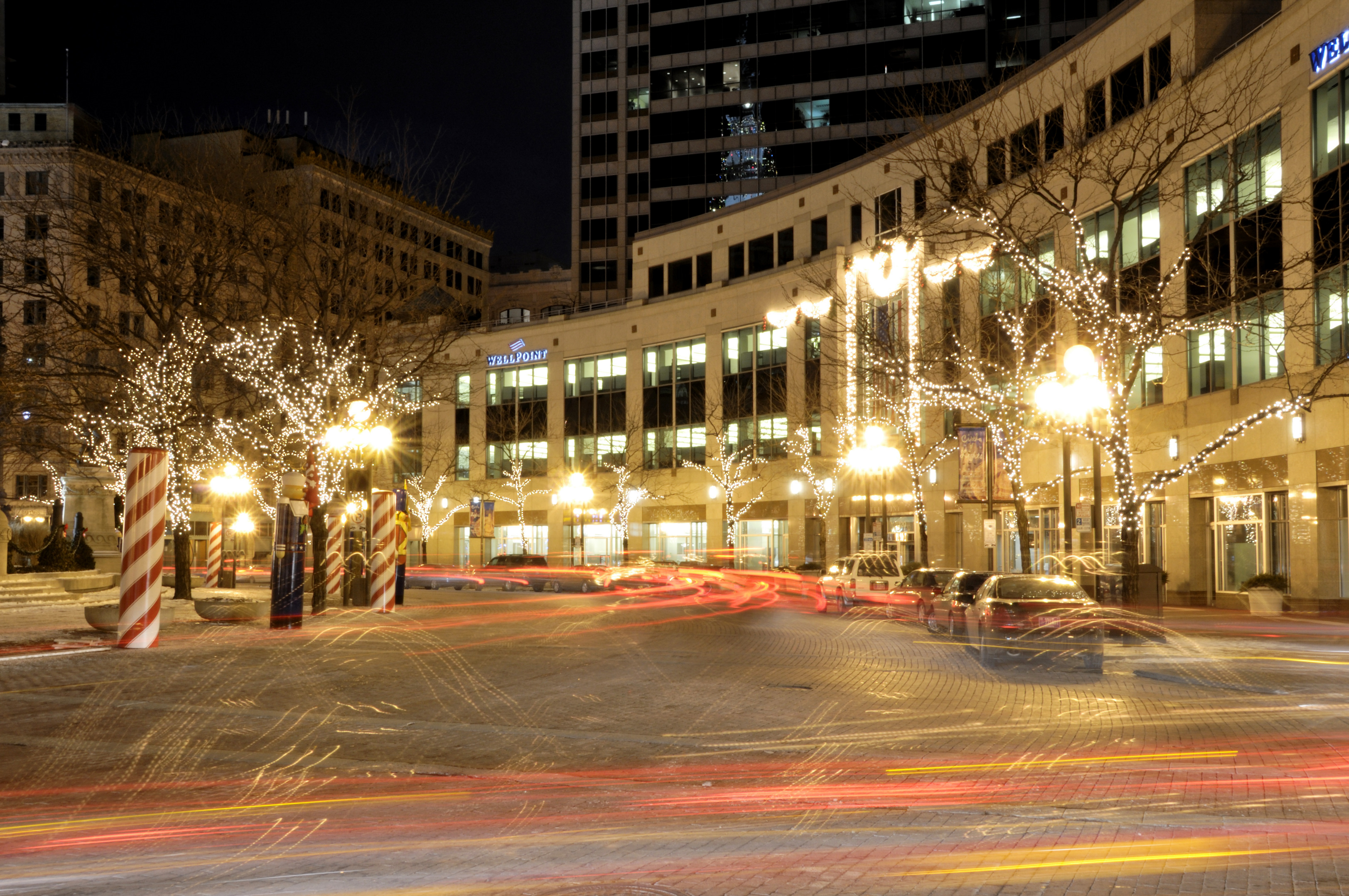 North Side of Monument Circle. 20 long seconds of freezing feeling